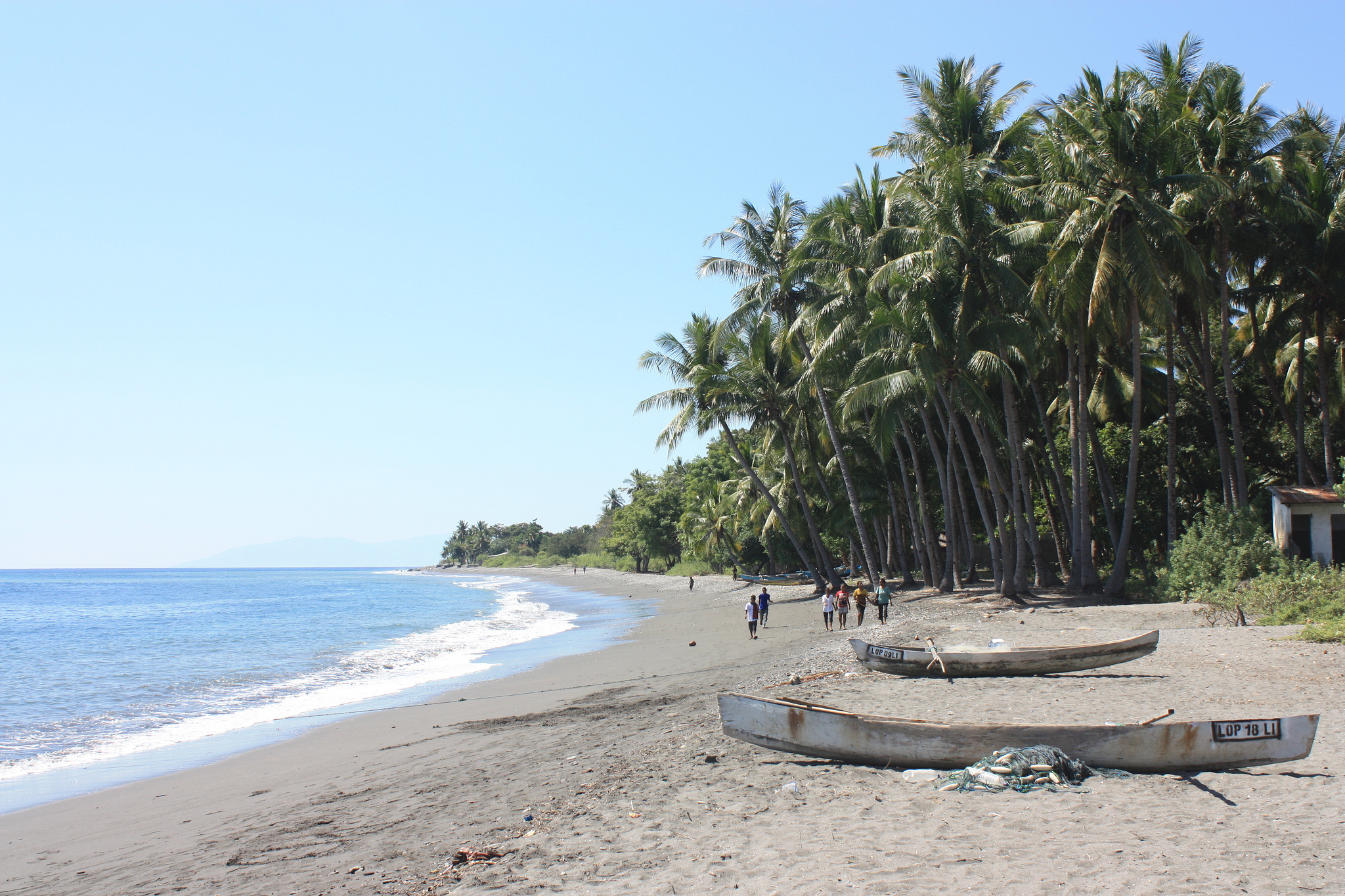 Timor-Leste: District Liquiçá, Subdistrict Liquiçá, Suco Dato